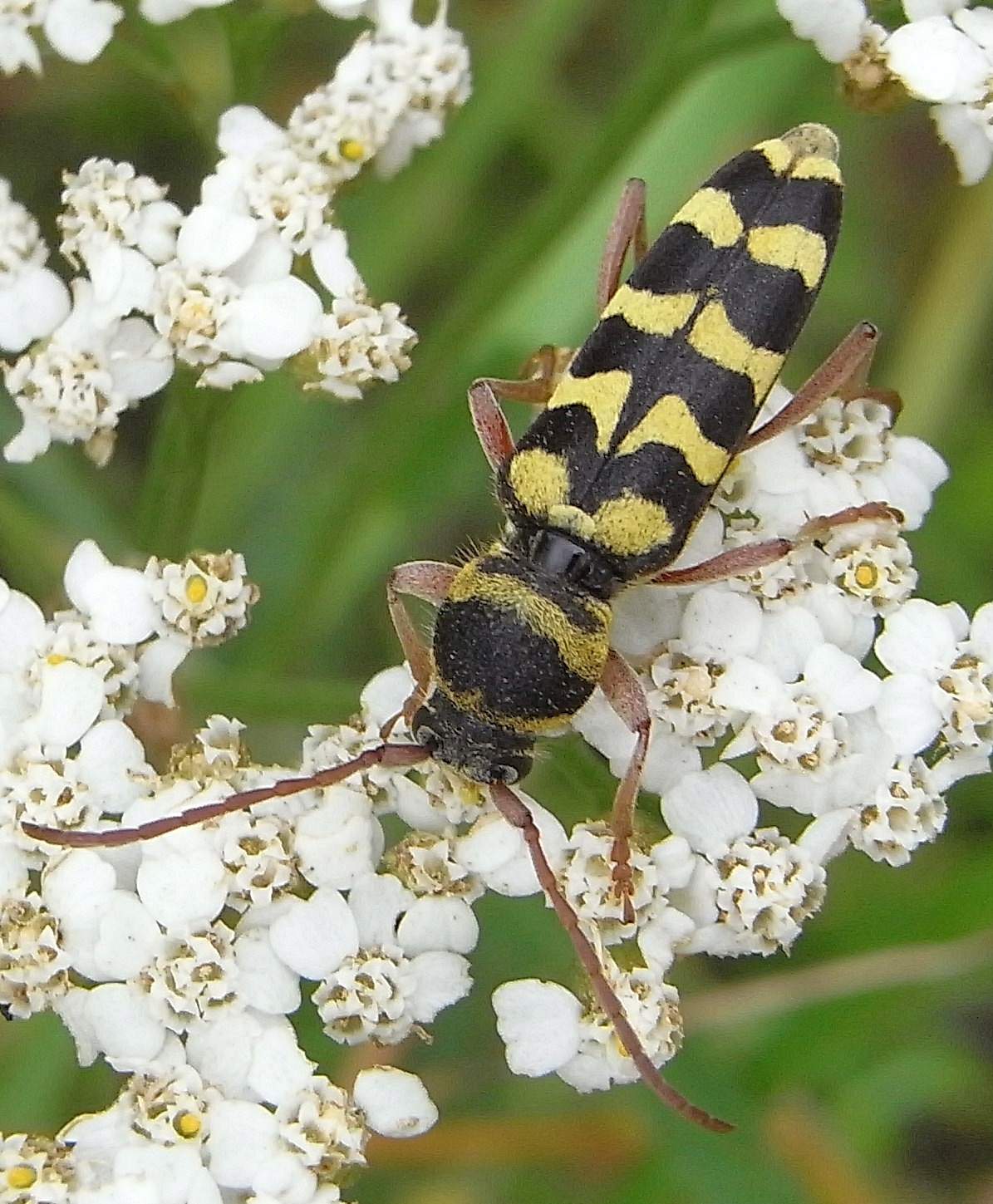 Plagionotus floralis from Hungary, north of Tatabanya, from 2010-07-05Ricoh R8